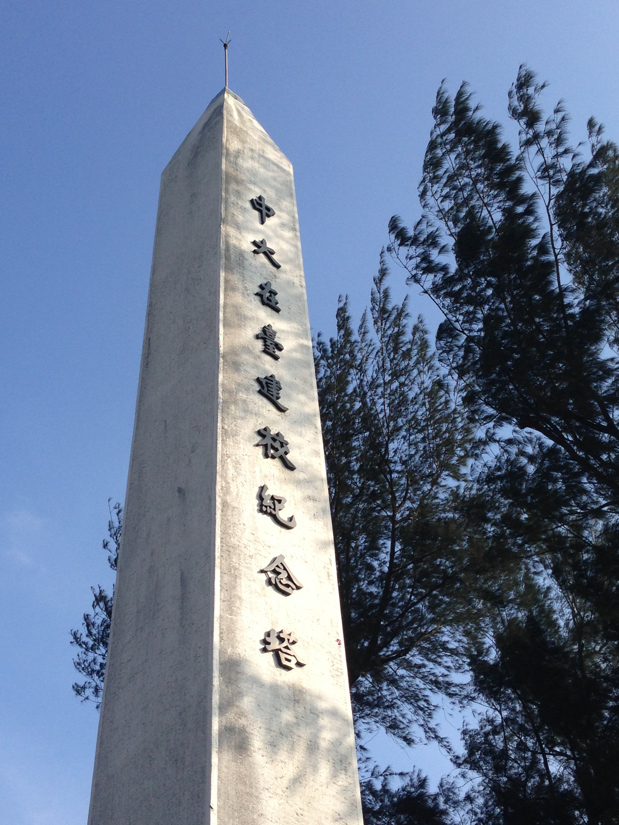 NCU Obelisk